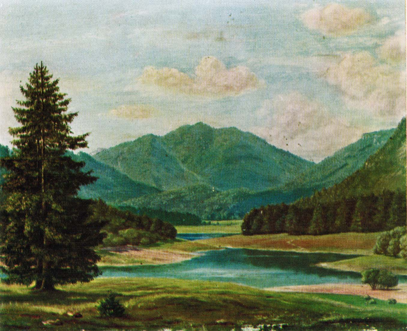 Painting by Theodor Boveri: Landscape near Ruhpolding. original size 27x21 cm.